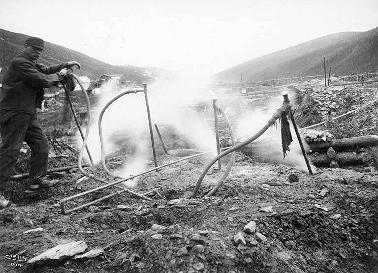 Steam used for thawing ground at Eldorado Creek in Klondike during the gold rush, 1898